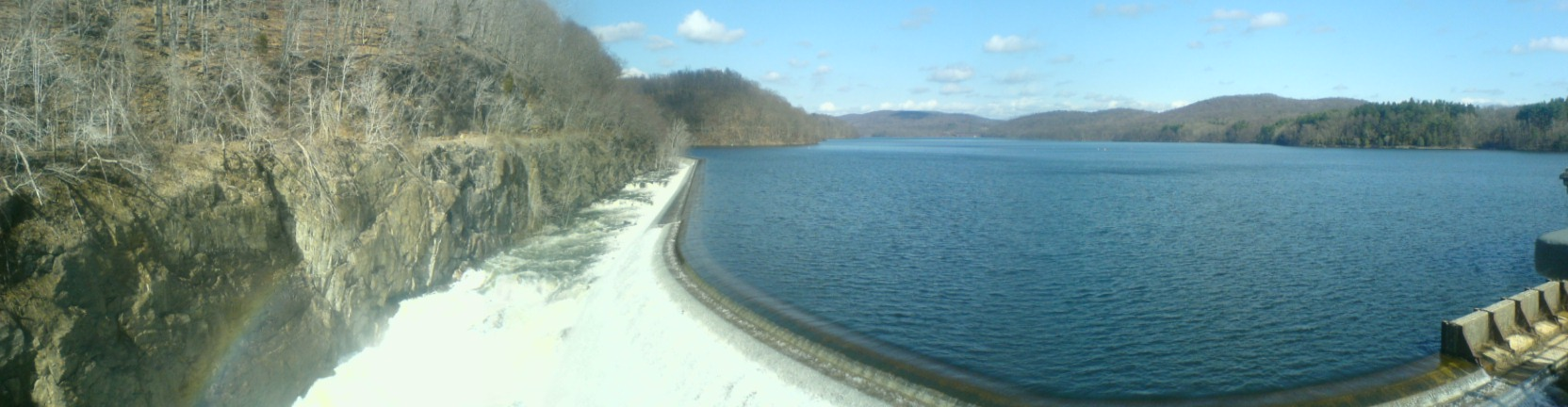 Croton River Dam, Westchester County, New York. View towards northwest.